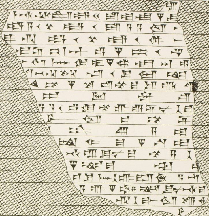 1870 drawing of the right hand frangment of the Azekah inscription (K6205)